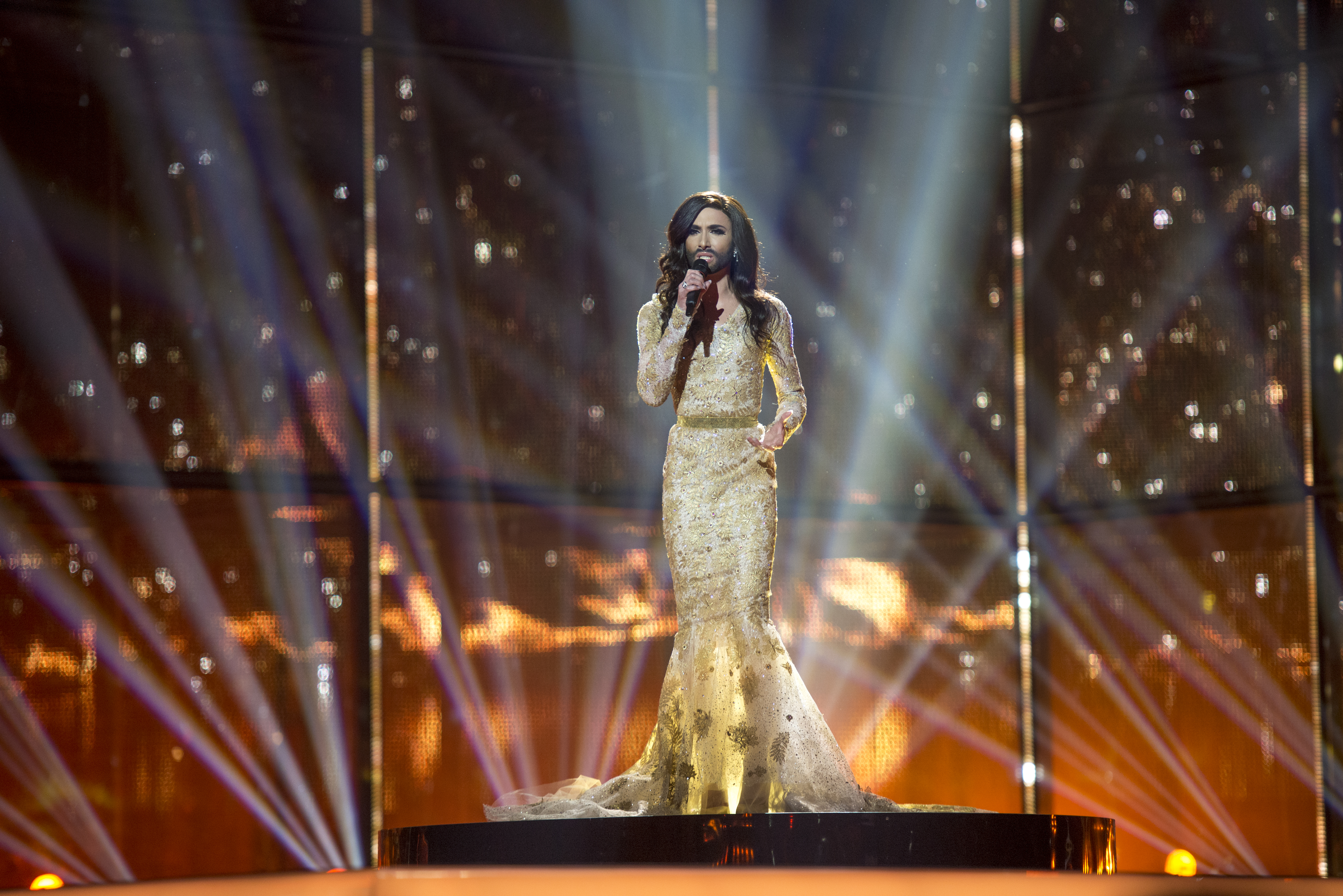 Conchita Wurst representing Austria with the song "Rise Like a Phoenix" during the first dress rehearsal of the second semi final of the Eurovision Song Contest 2014 Copenhagen. (Help translate this text)